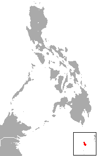 Sangihe Tarsier (Tarsius sangirensis) range